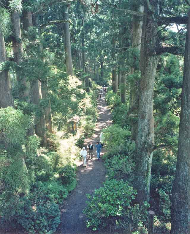 Tokaido, section of a kaido near Hakone, Kanagawa prefecture, Honshū, Japan I took this photograph and contribute it to the public domain.